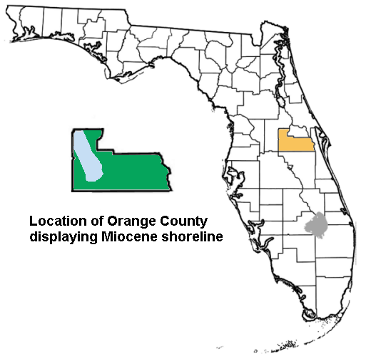 Miocene Orange County, Florida with marine arm (blue) encroaching the Central Highlands (green)